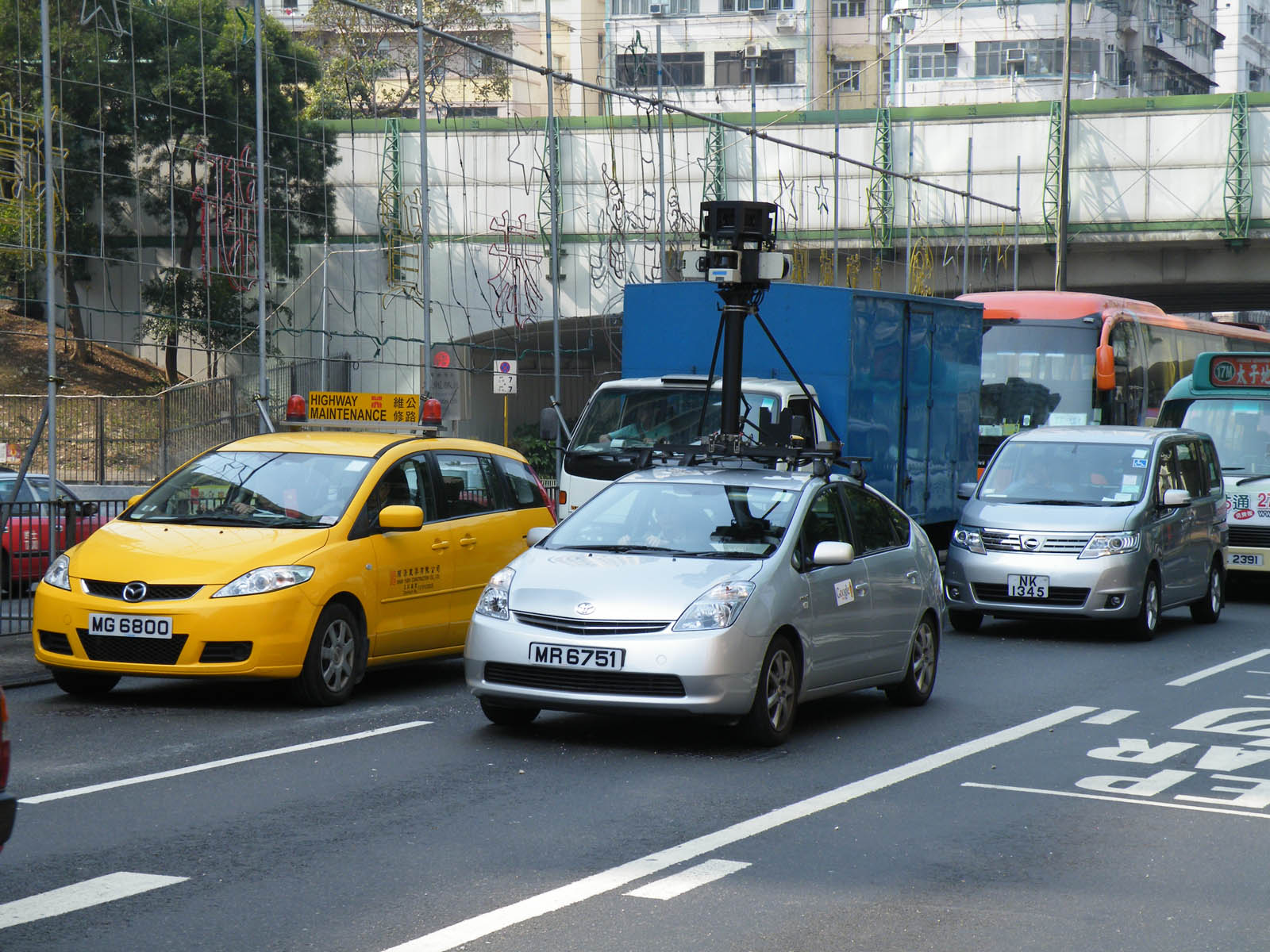 Google Street View camera cars in Hong Kong